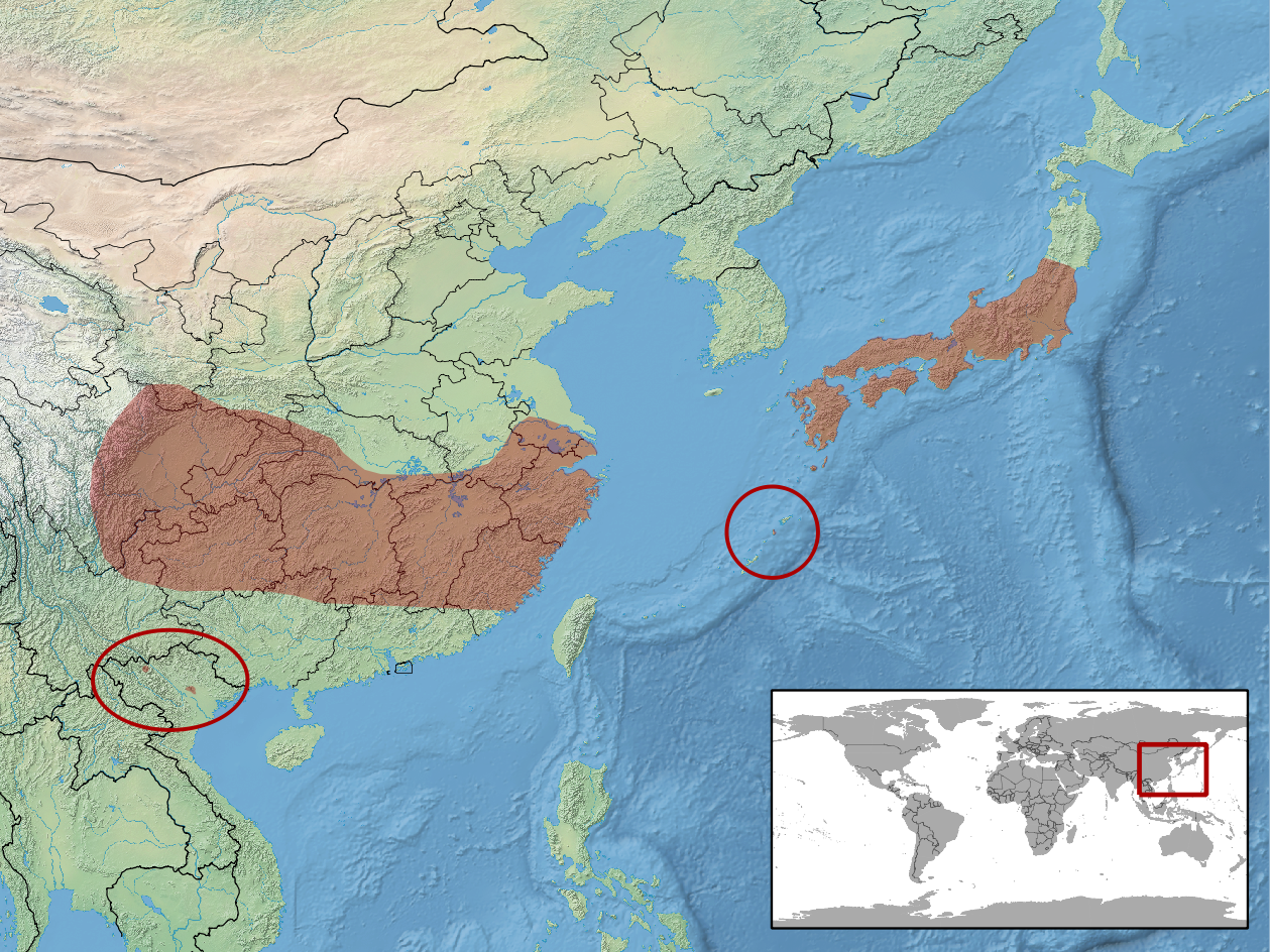 geographic distribution of Achalinus spinalis (Native: China; Japan; Lao People's Democratic Republic; Viet Nam)